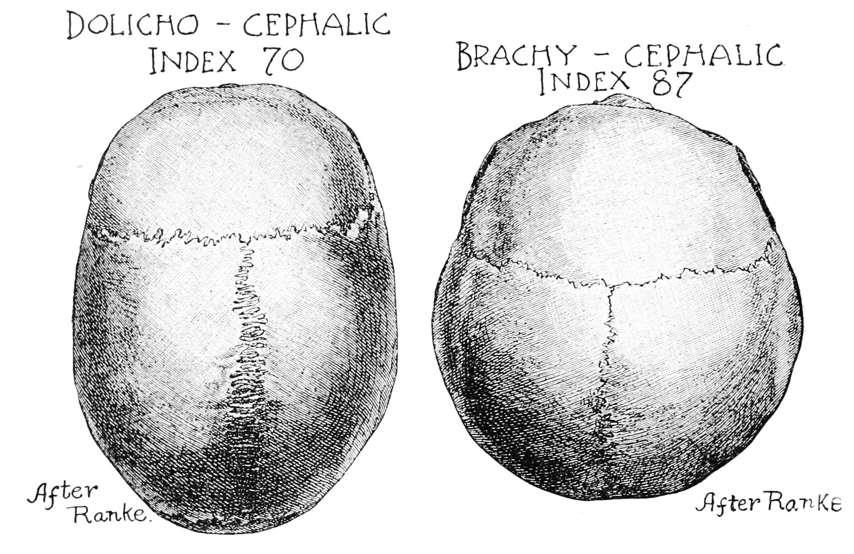 Mesocephalic indexes of racial classification